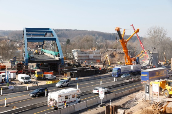 Hösbach Bridge